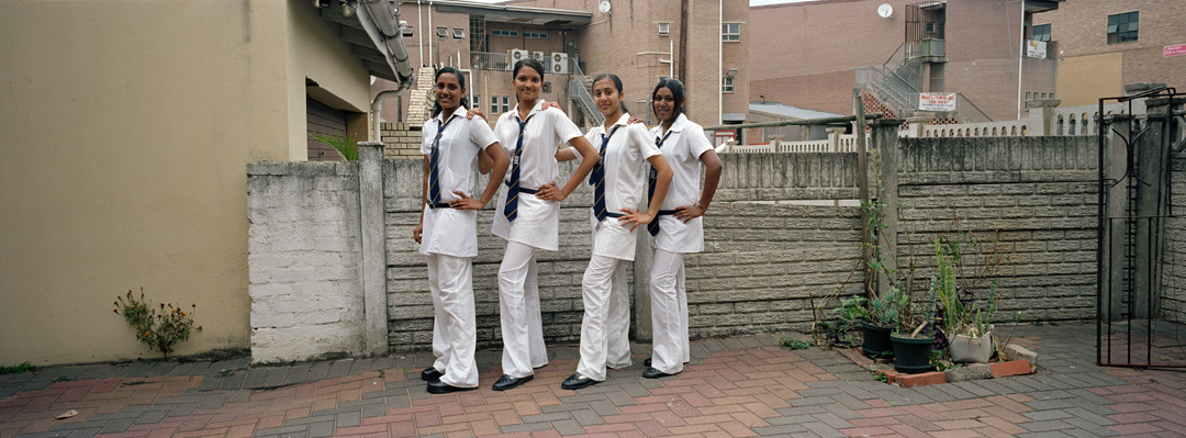 Panoramic photograph by Dave Robertson